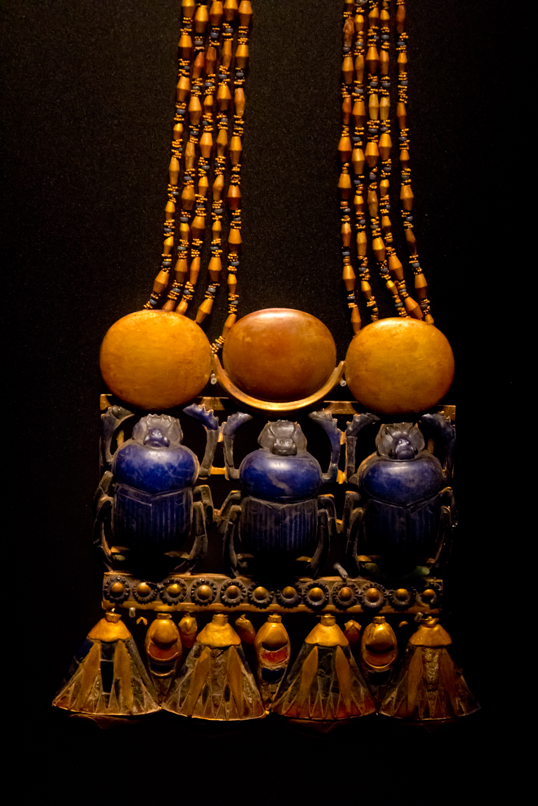 A pectoral with three scarab beetles clasped to a necklace (partly shown) which was discovered from the intact KV62 tomb of Tutankhamun. This jewellry depicts Scrab Beetles or Khepri, pushing the sun. It is one of the treasures found from Tutankhamun's tomb who ruled during the 18th dynasty of Egypt's New Kingdom. The pectoral is today part of the collection of the Cairo Museum. This photo was taken at the King Tut exhibition at the Pacific Science Center in Seattle, Washington State, USA.